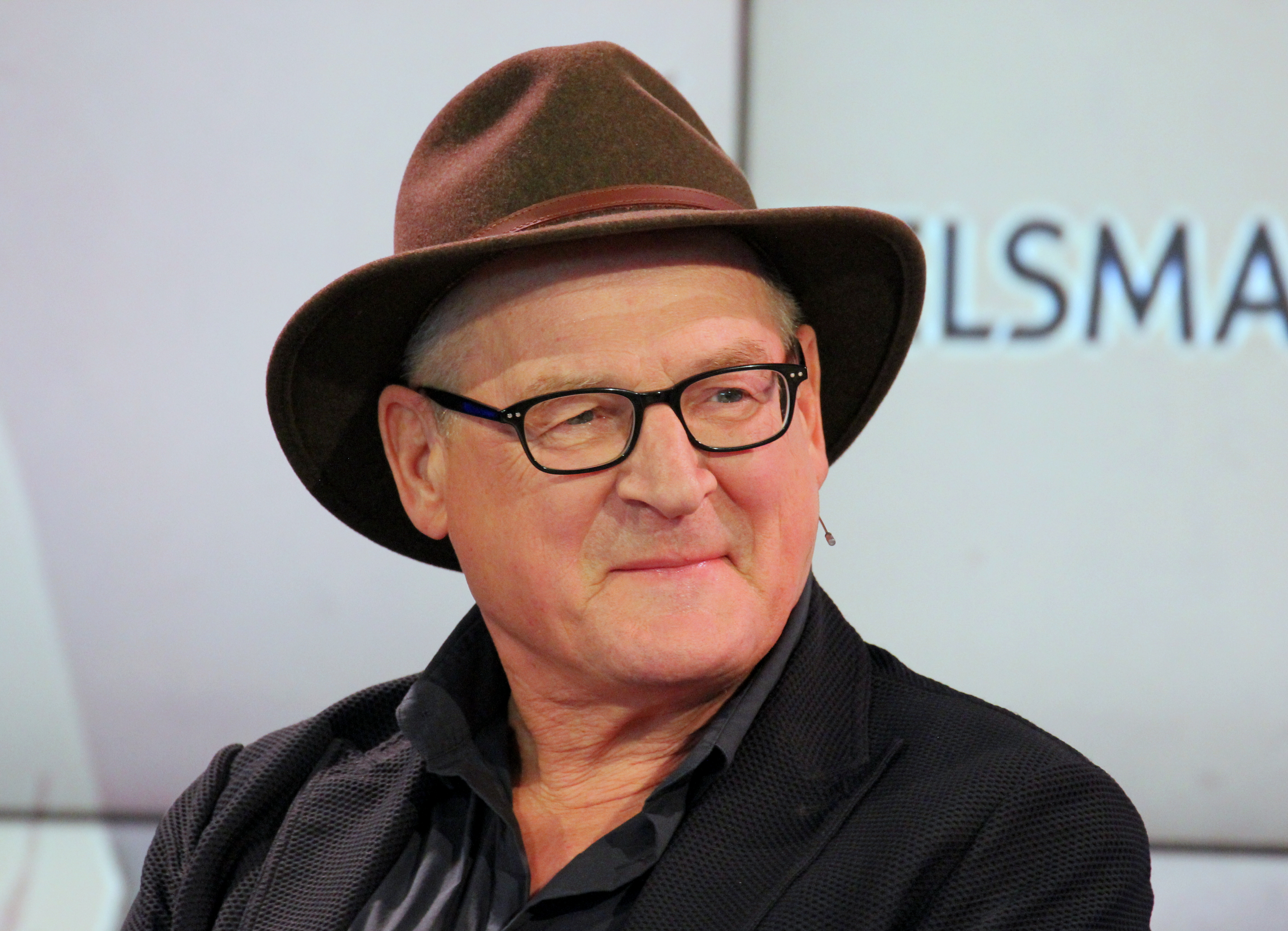 Burghart Klaußner Frankfurt Book Fair 2018